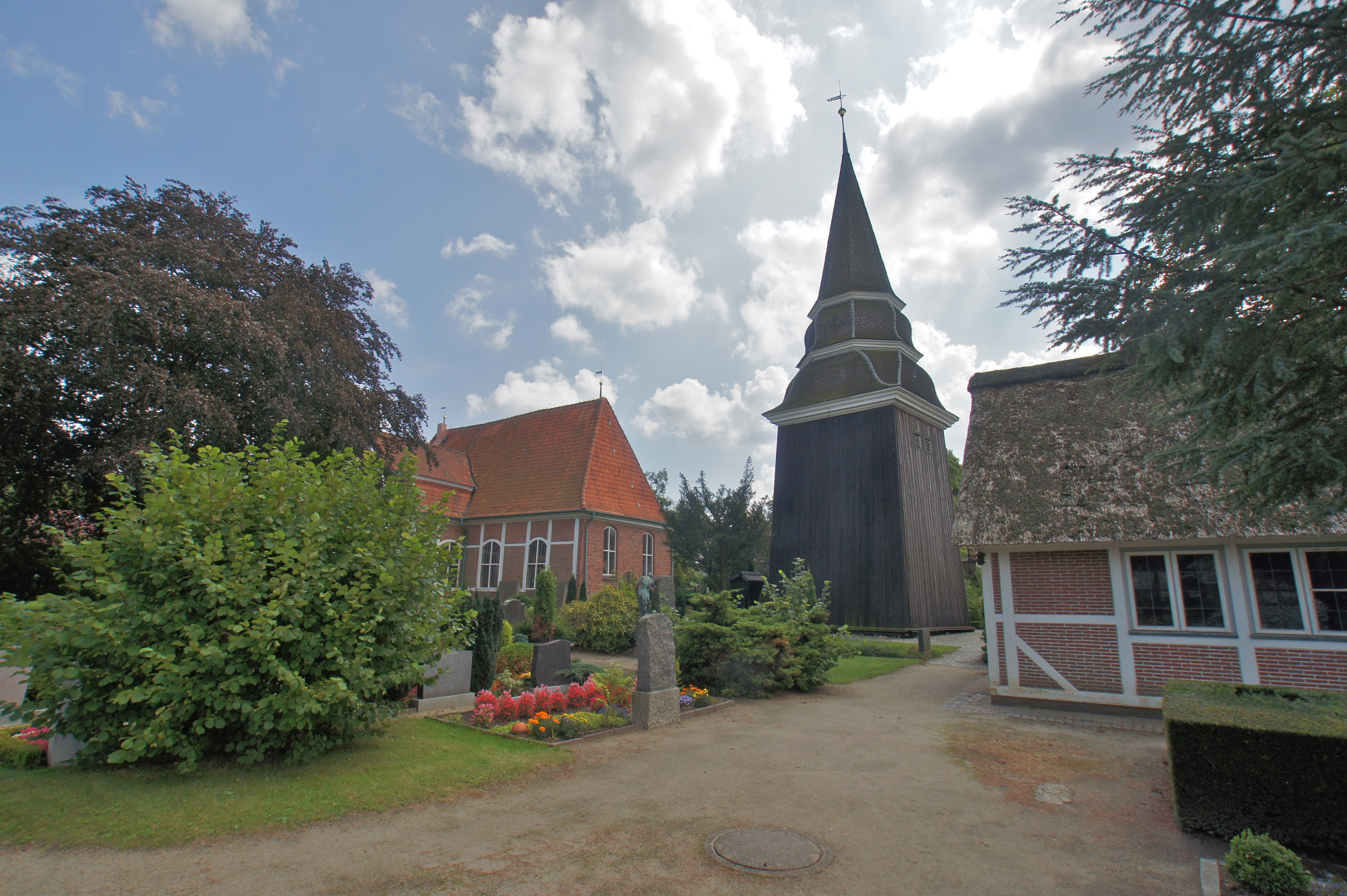 Hamburg (Curslack), Germany: John's Church